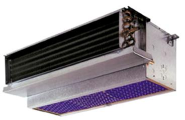 Horizontal Fan Coil